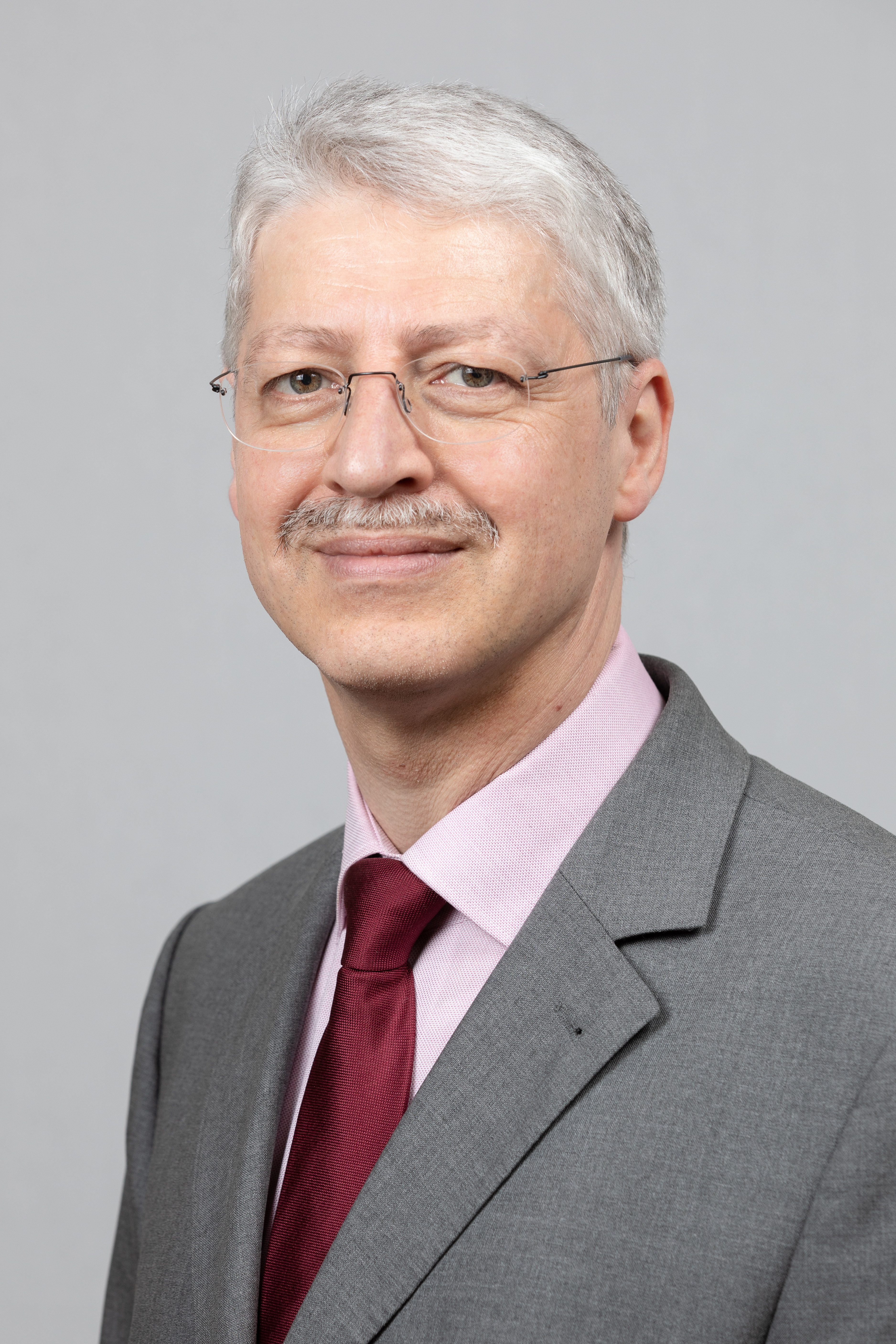 Matthias Büger, Landtag of Hesse, Wiesbaden, April 3rd, 2019